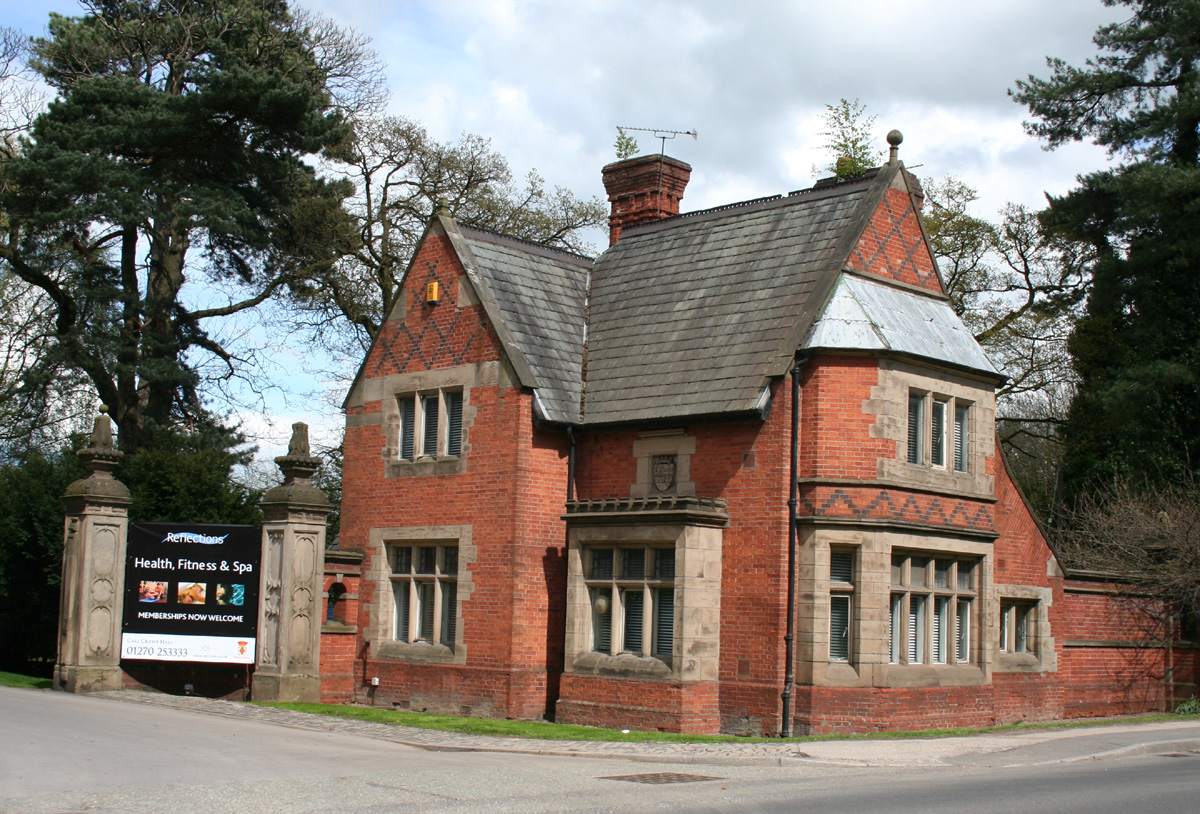 Southern gatelodge of Crewe Hall, Cheshire